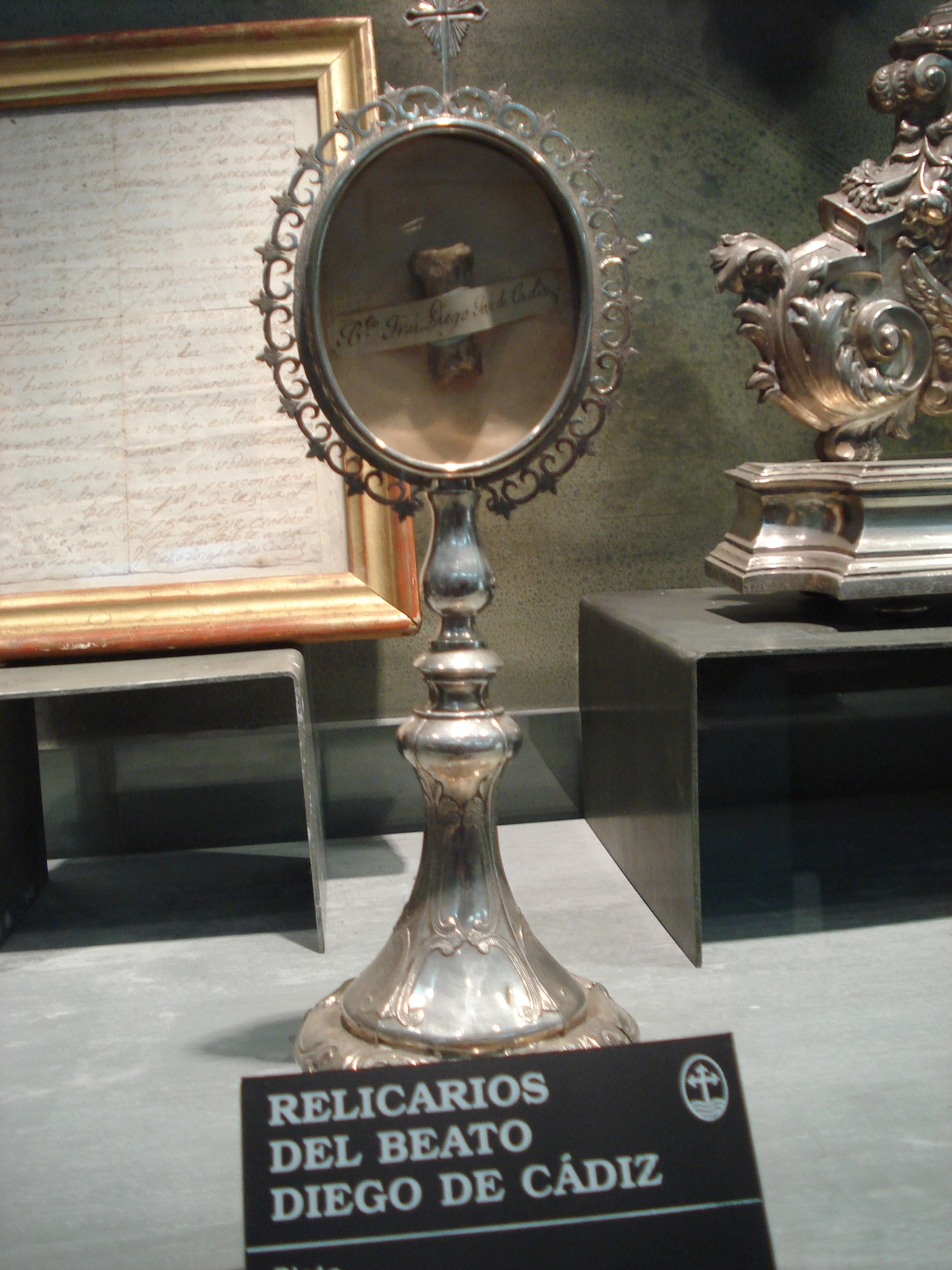 Reliques of Beato Diego in Cadiz Cathedral